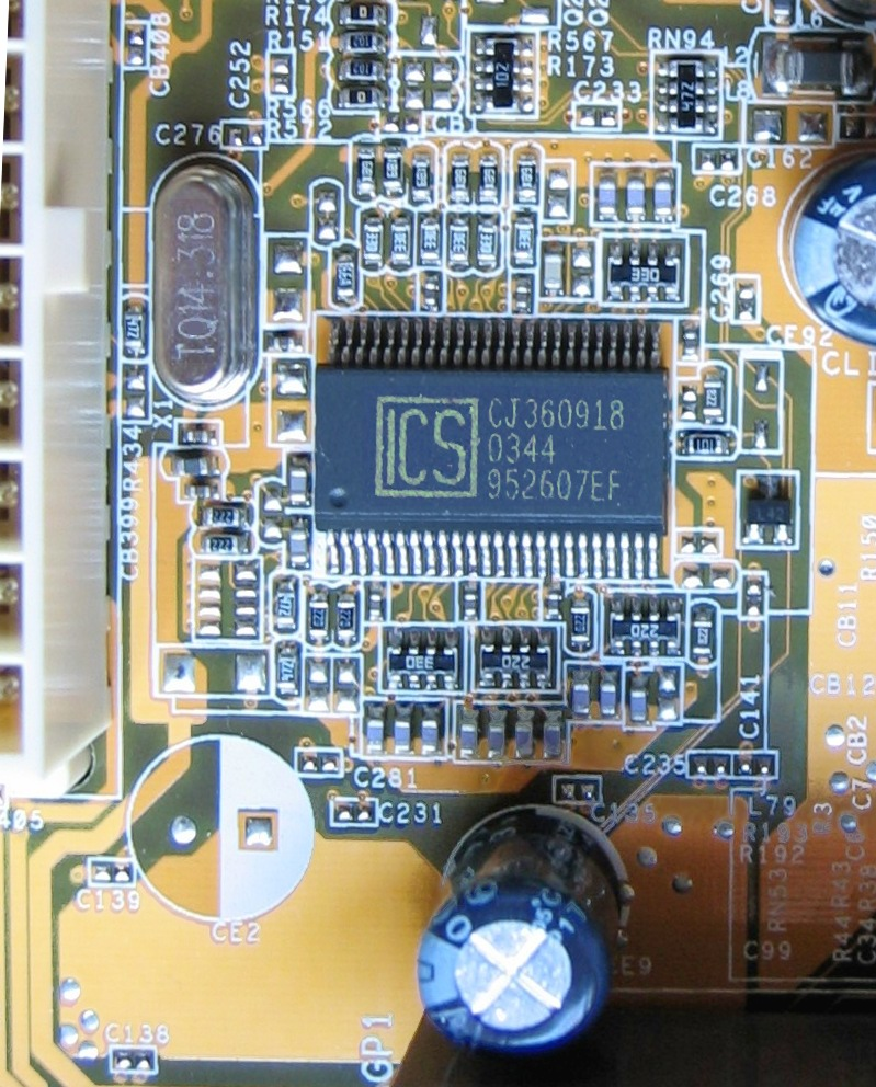 pc clockgenerator with capacitors